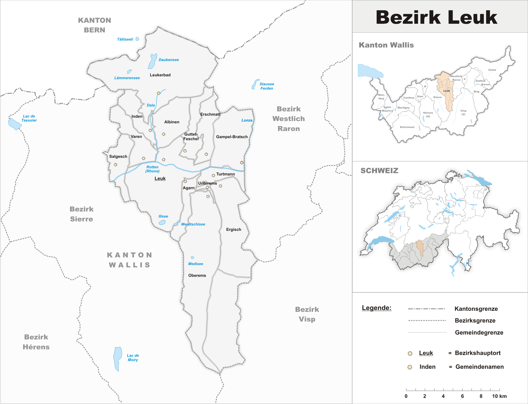 Municipalities in the district of Leuk to 2009